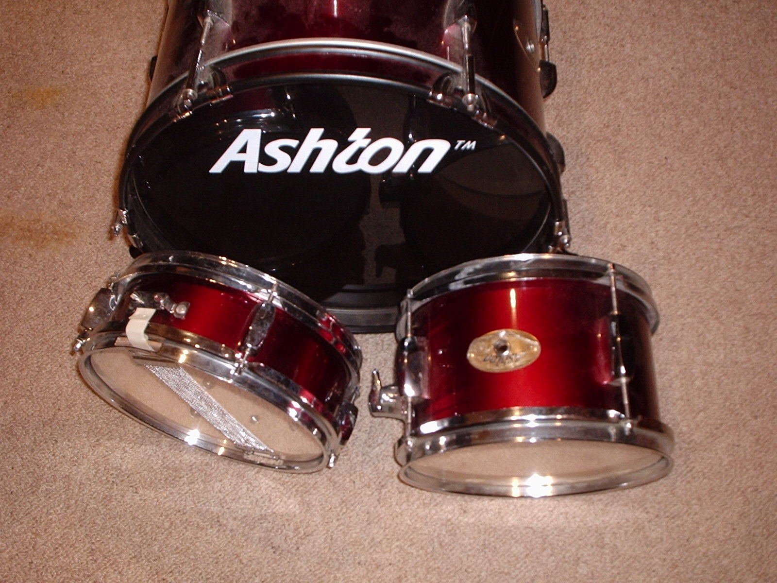 Three-piece drum set for a young player: 16" bass drum, 10" snare drum and one 10" hanging tom